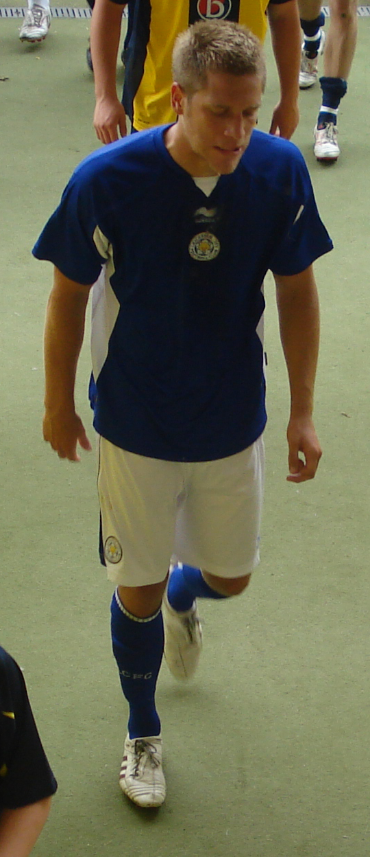 image of footballer Michael Morrison